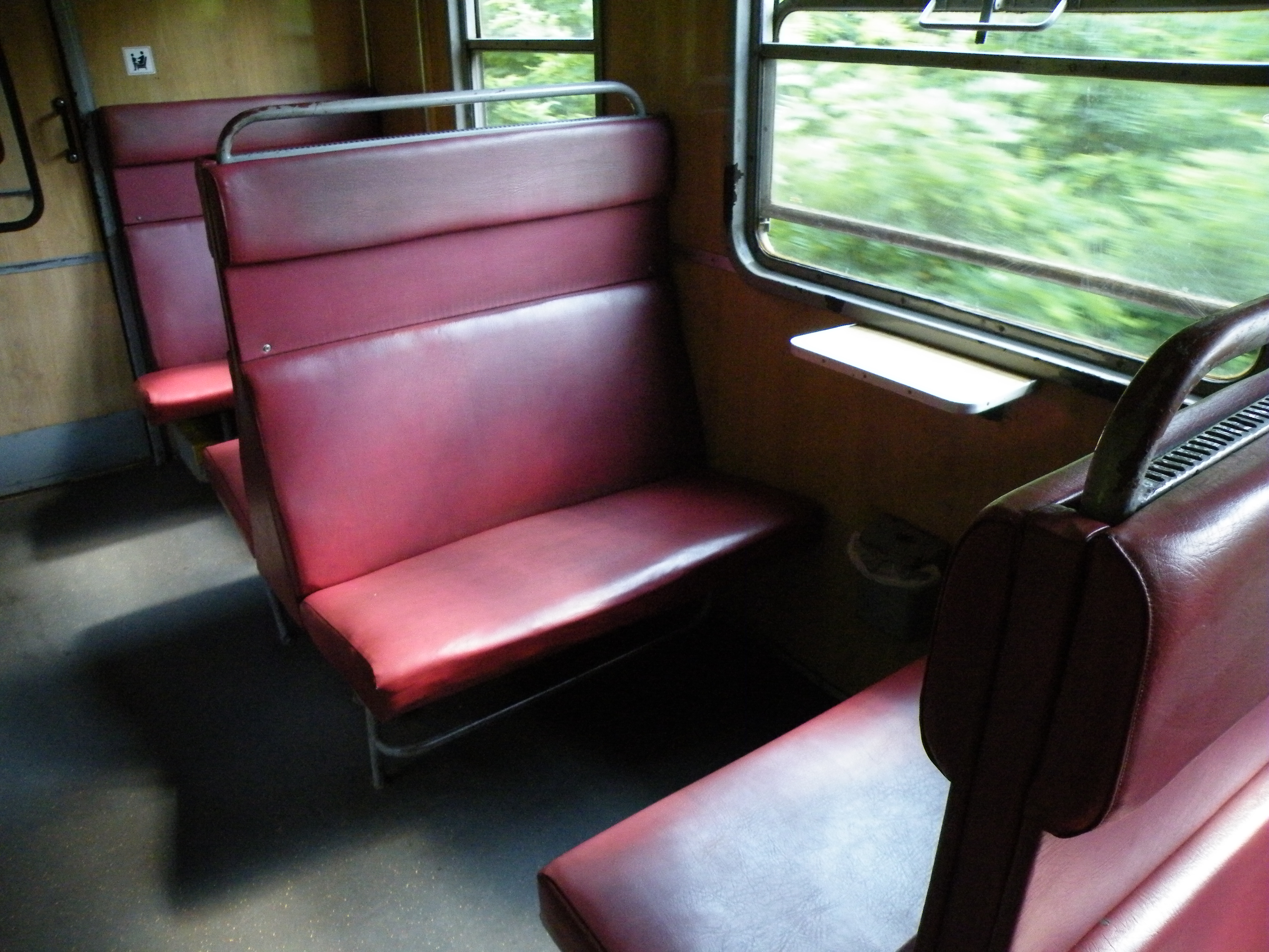 Artificial leather seats in PKP-class EN57 EMU